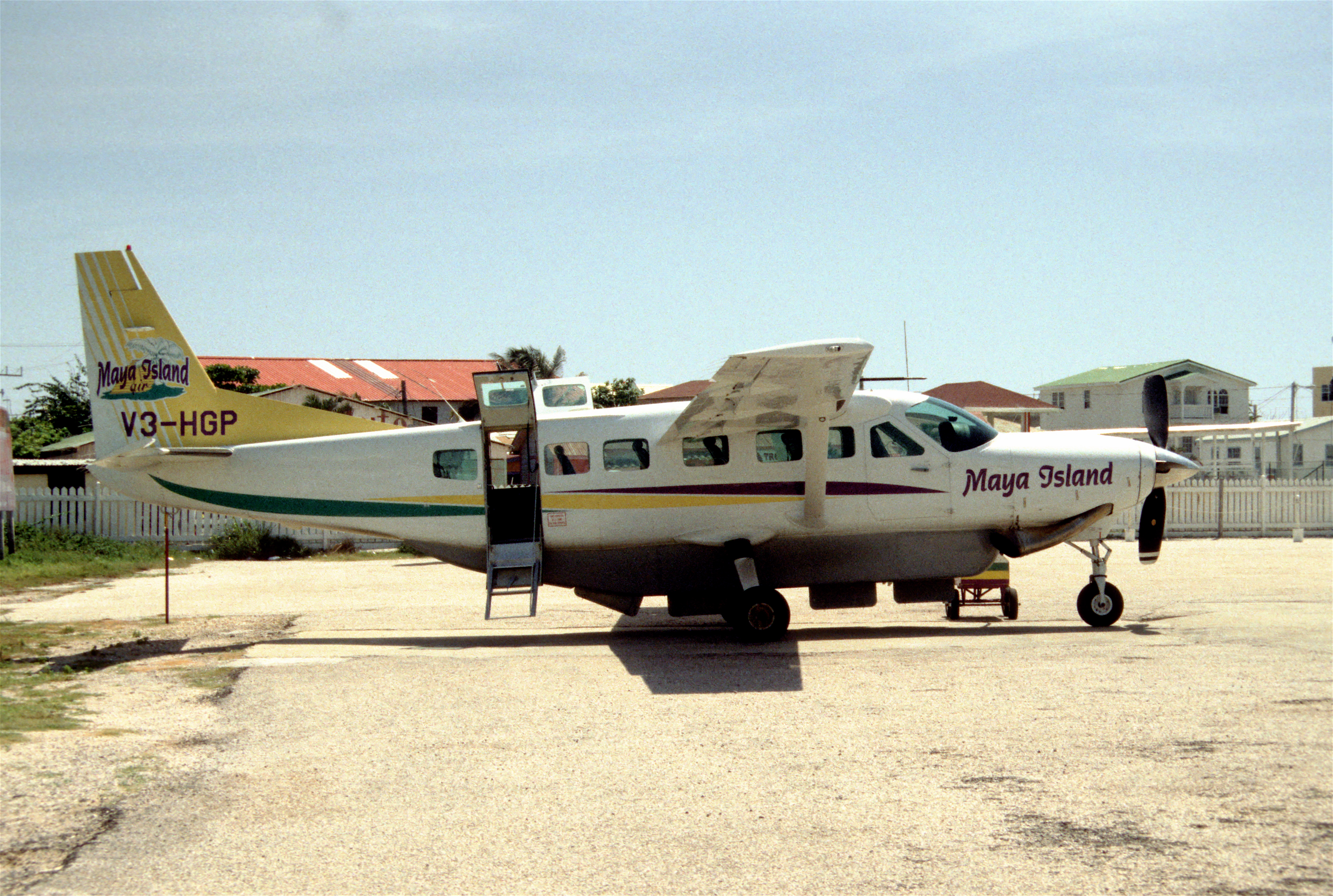 256ac - Maya Island Air Cessna 208B Grand Caravan; V3-HGP@SPR;06.08.2003